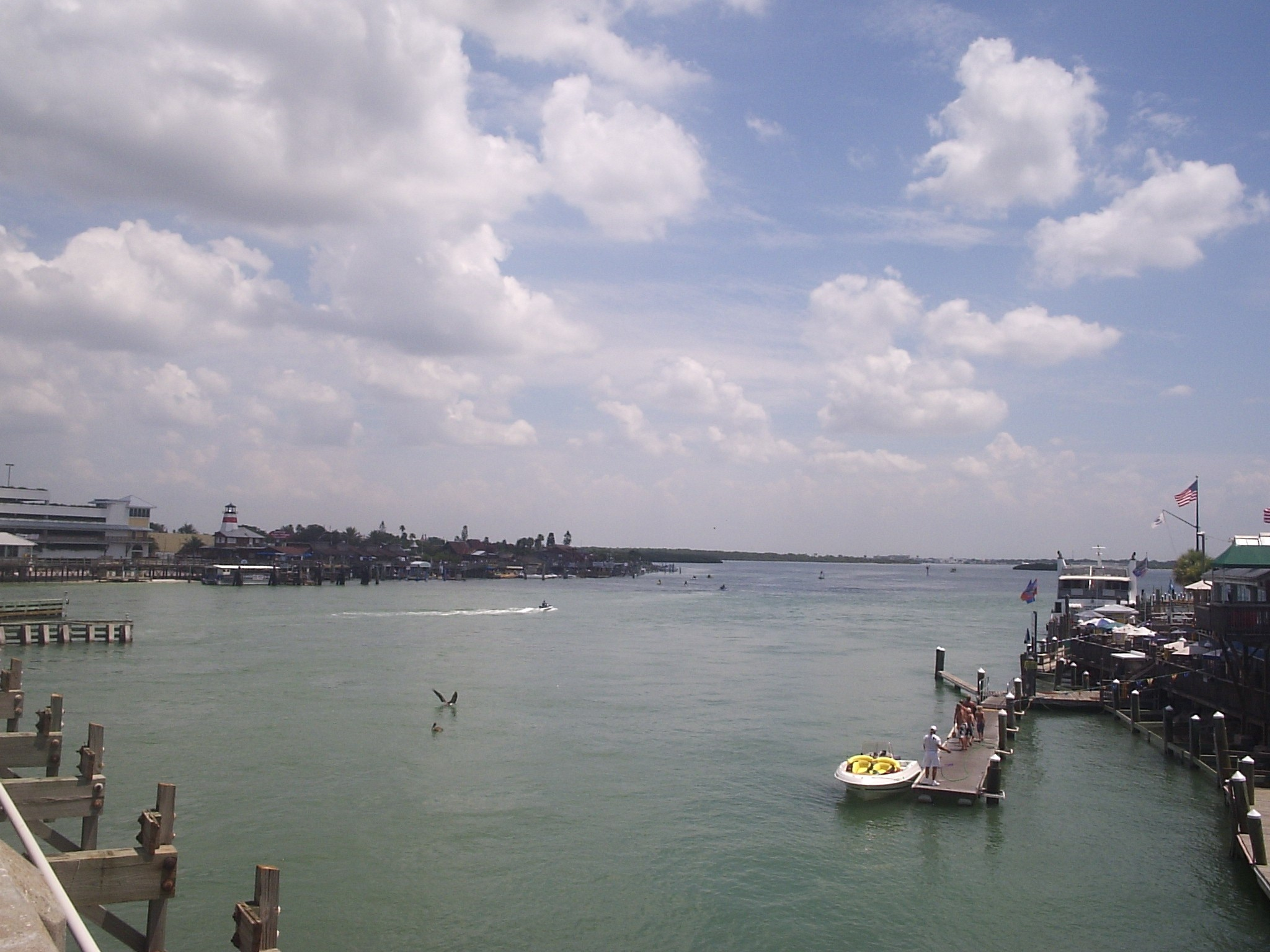 Taken by me, User:Mikereichold